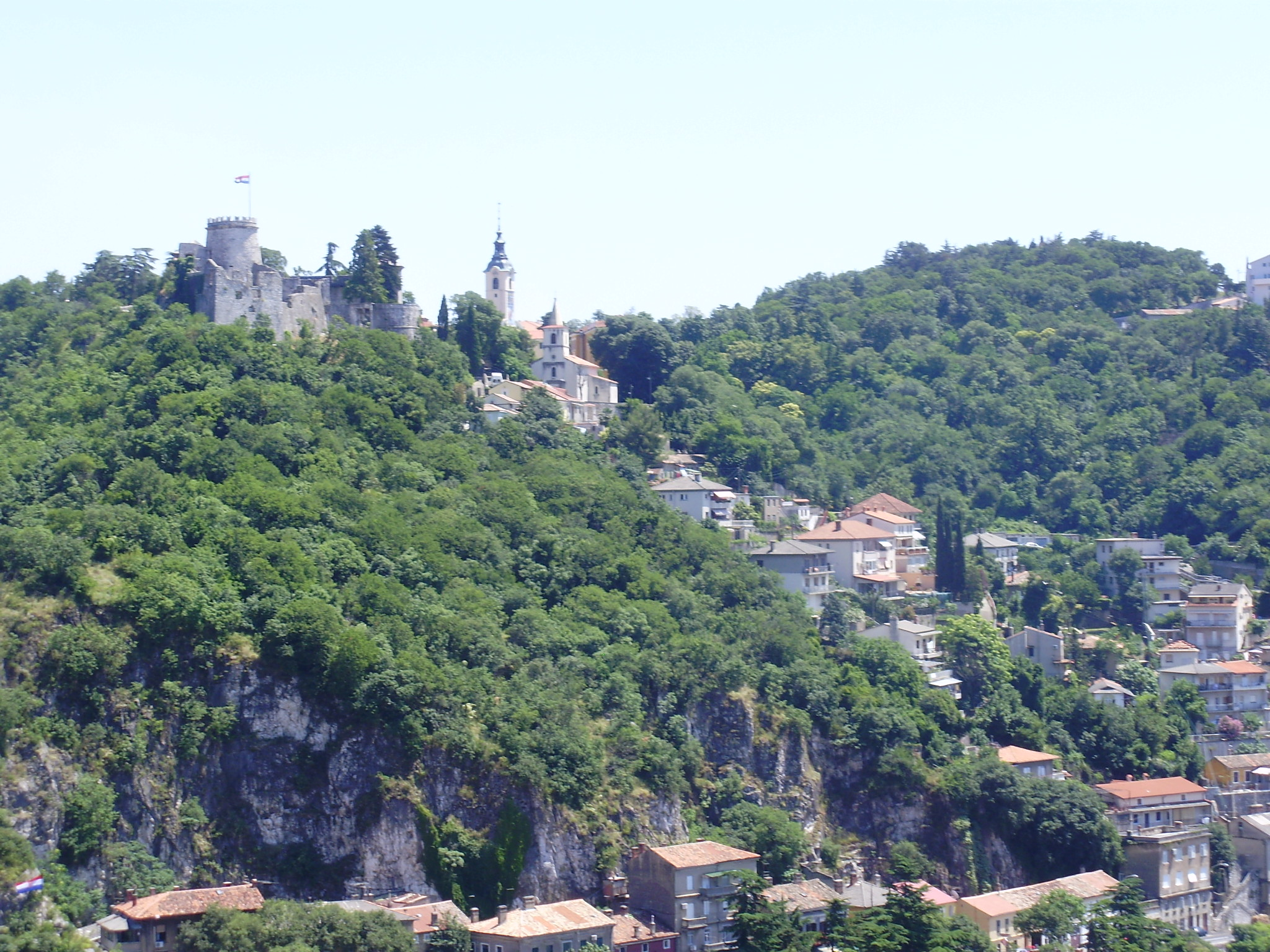 Rijeka, Trsat